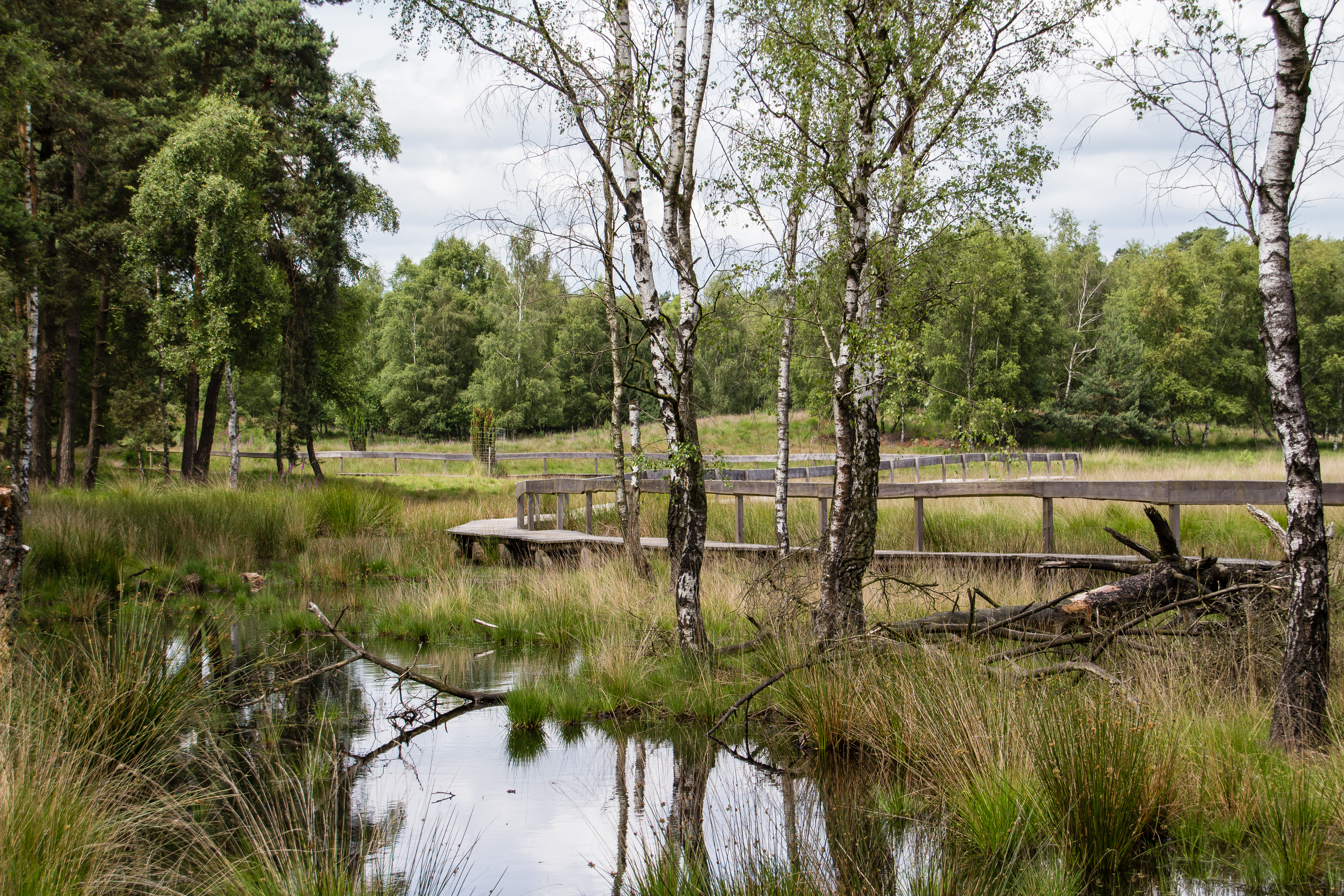 "Diersfordter Wald" nature reserve in Hamminkeln, Wesel district, North Rhine-Westphalia, Germany